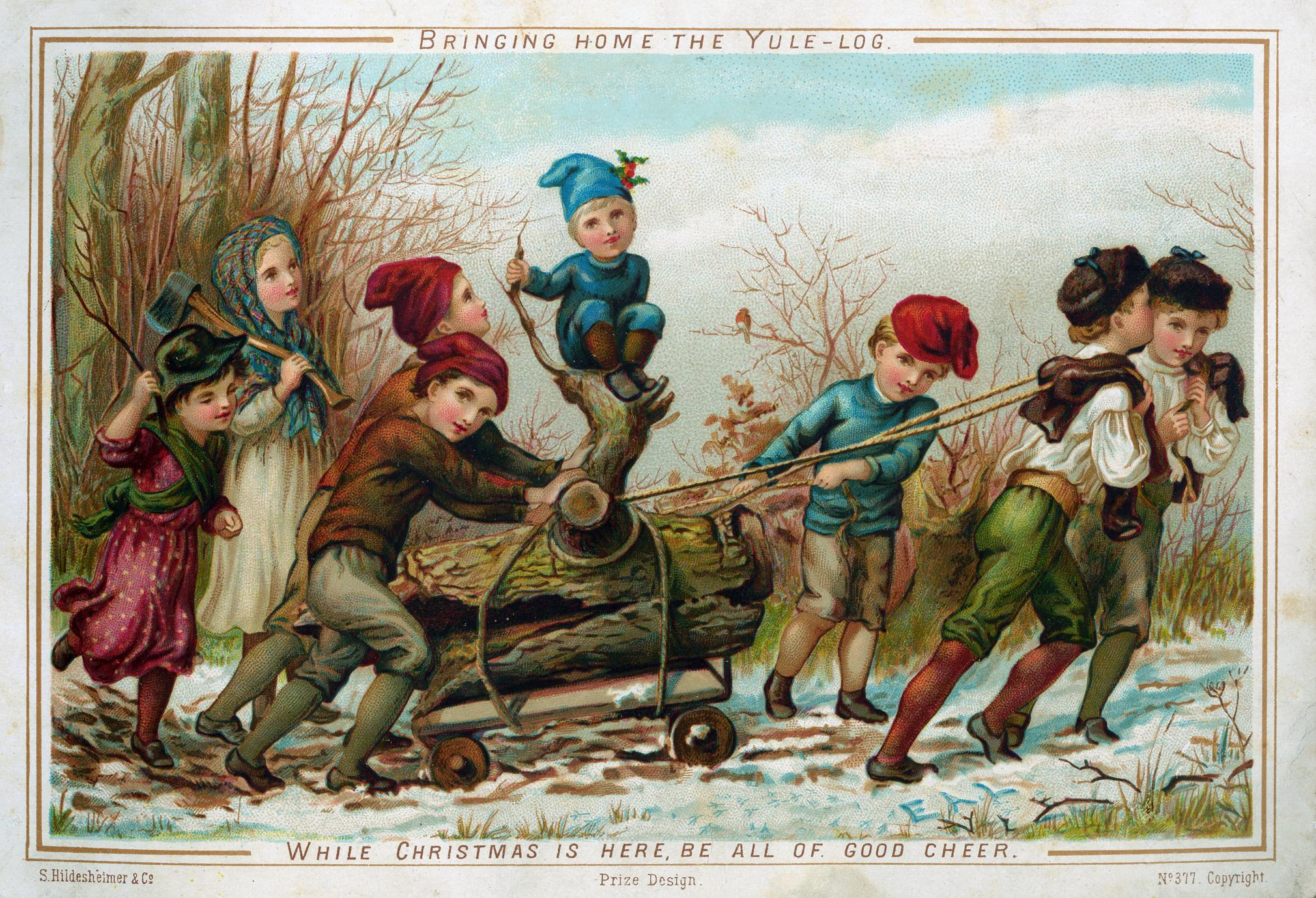 Victorian Christmas Card